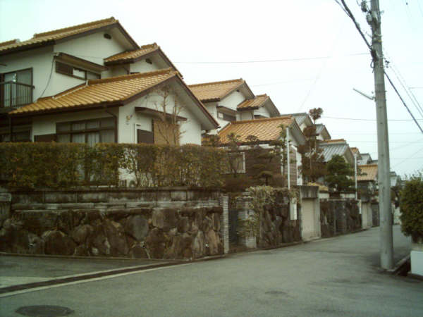 Street in Sanda, Hyogo Prefecture